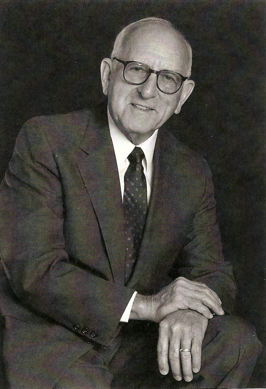 James A. Knight, MD, was a psychiatrist, theologian, and medical ethicist affiliated with Tulane University School of Medicine, Texas A&M School of Medicine, and Louisiana State University School of Medicine. The photograph was taken in approximately 1993.